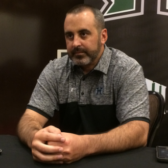 Nick Rolovich, head coach of the Hawaii Rainbow Warriors football team, at the 2016 Mountain West Conference Media Days in the The Cosmopolitan in Las Vegas.